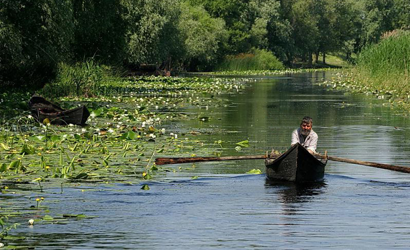 A lipovan fisher in the Danube's delta